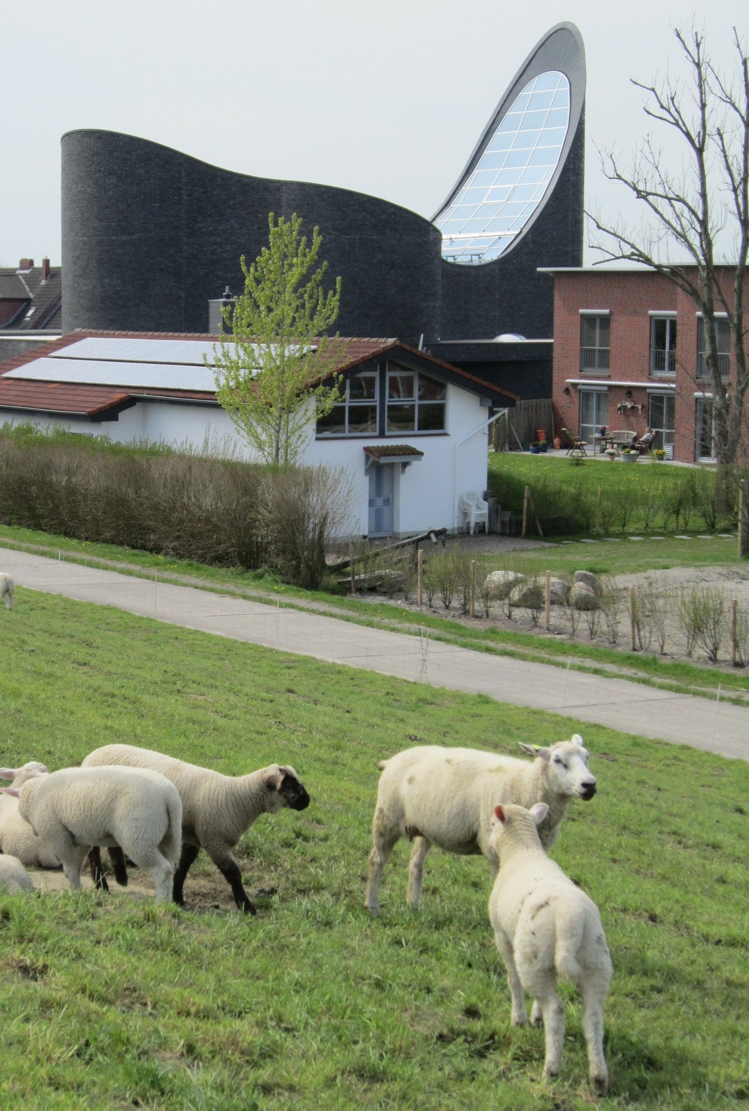 Catholic St. Mary Church at Schillig (Friesland)